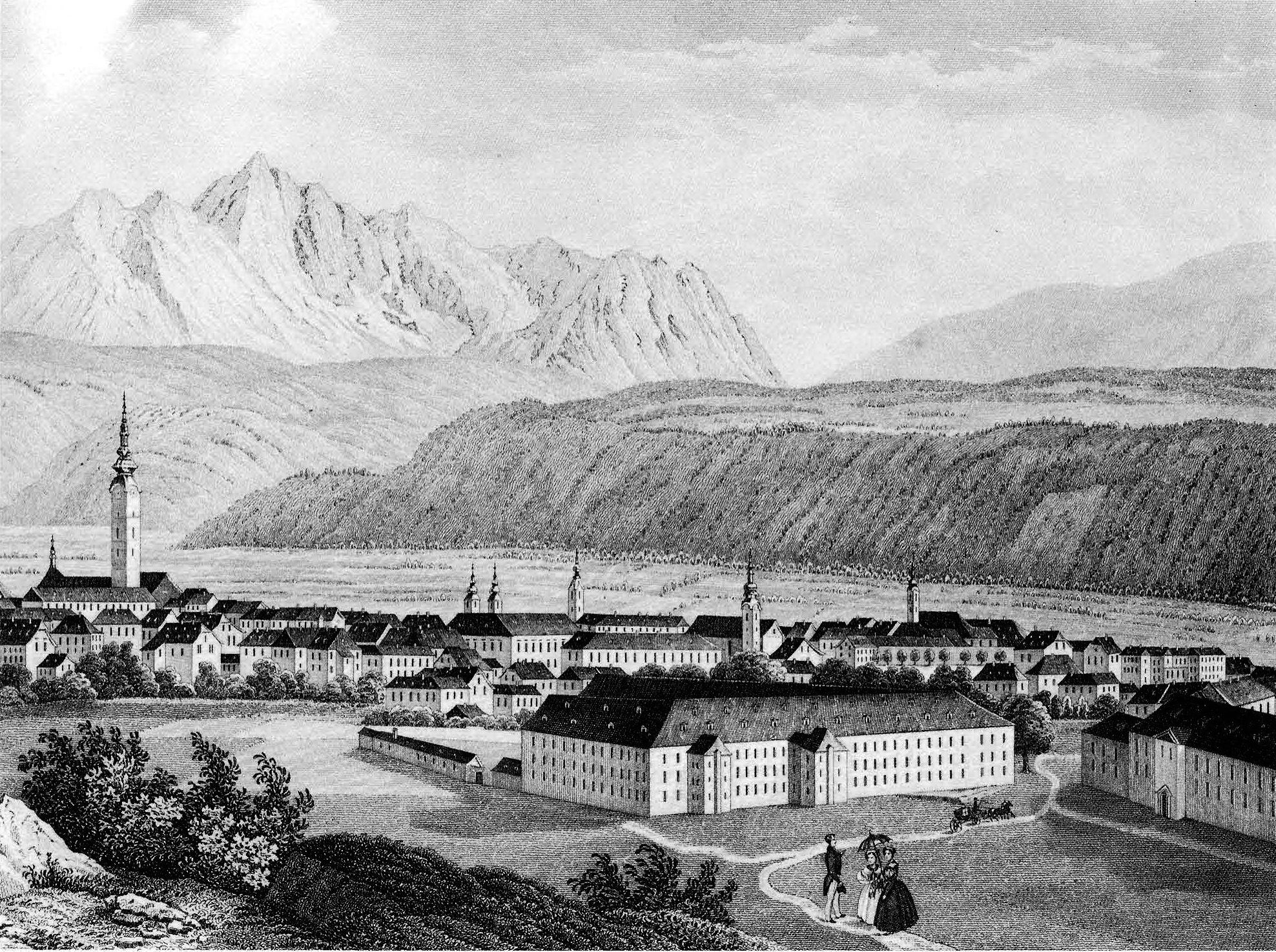 View of Klagenfurt in Carinthia / Austria / European Union.